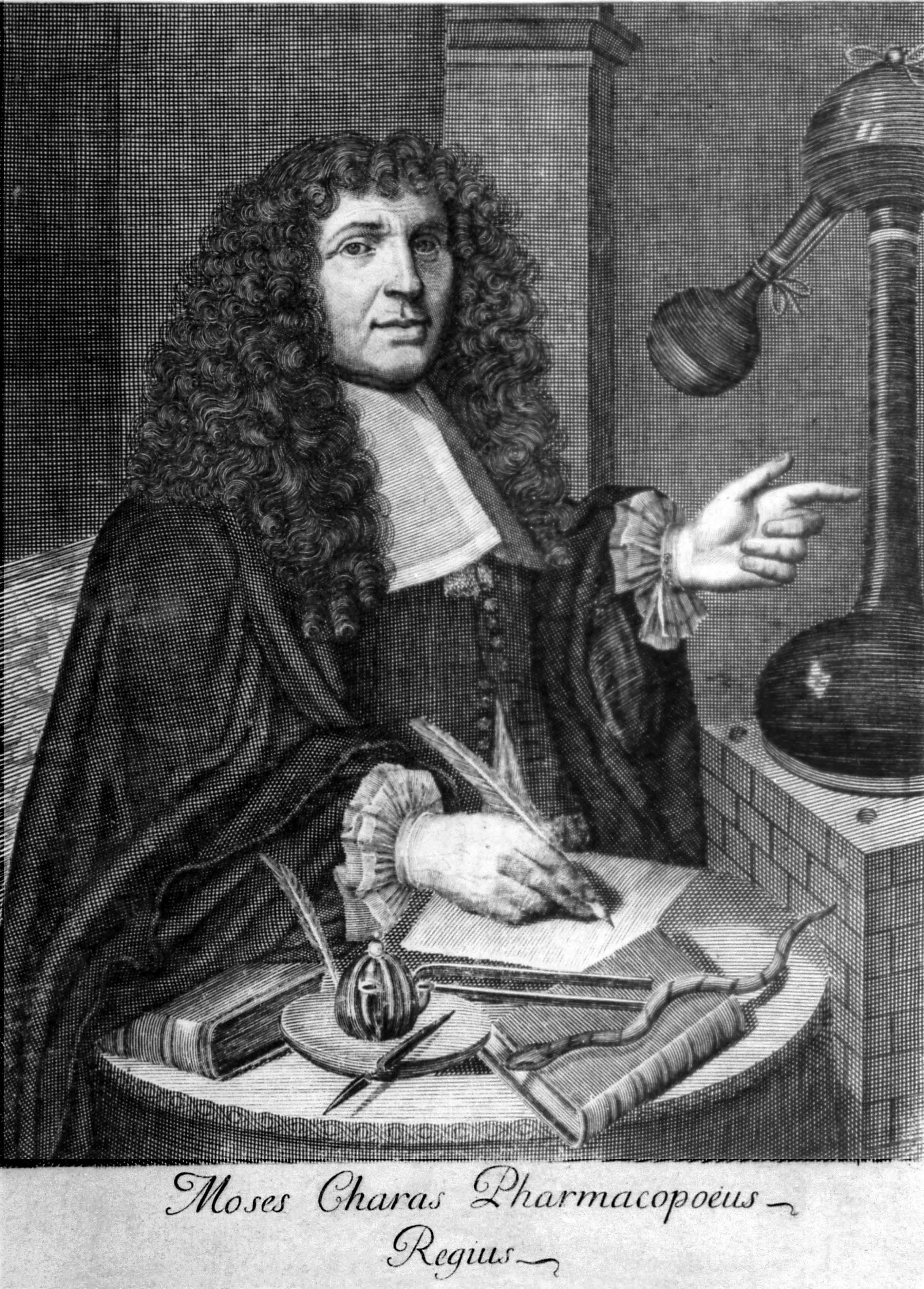 Portrait of French pharmacist Moyse Charas (1619-1698)